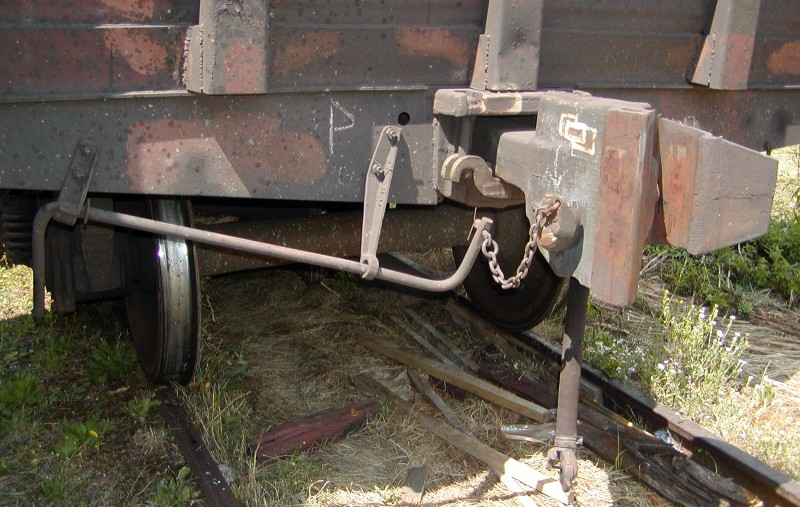 On the left you could see the releasing stick. This coupler is easily operatable. photo by Zoltán Bogoly 2007